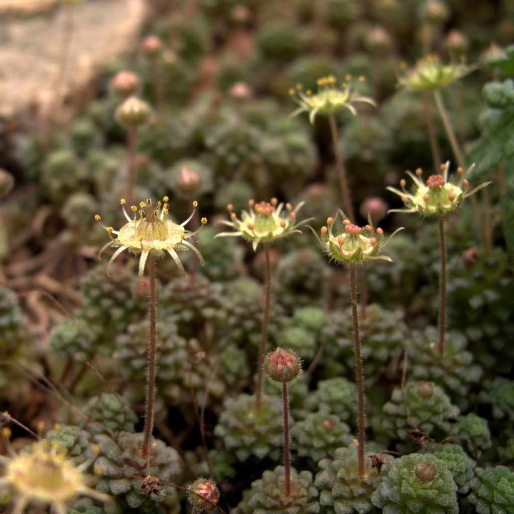 Monanthes pallens. Identified by sign.